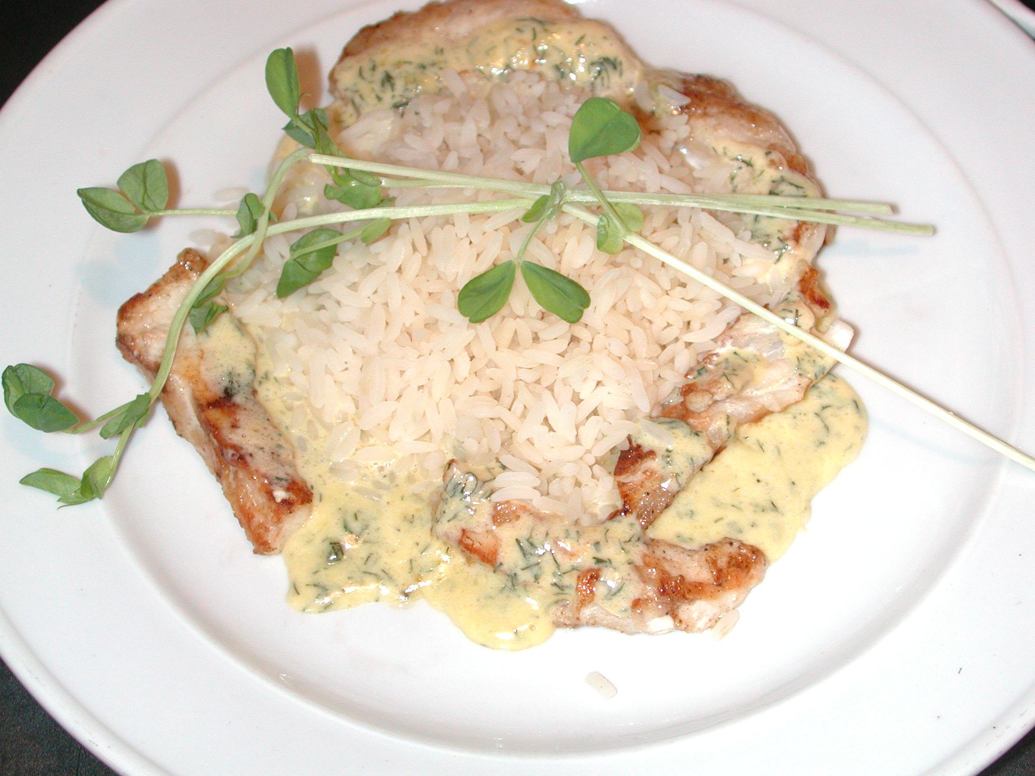 Crocodylus porosus, Saltwater Crocodile as food, Noosa Heads, Queensland, Australia